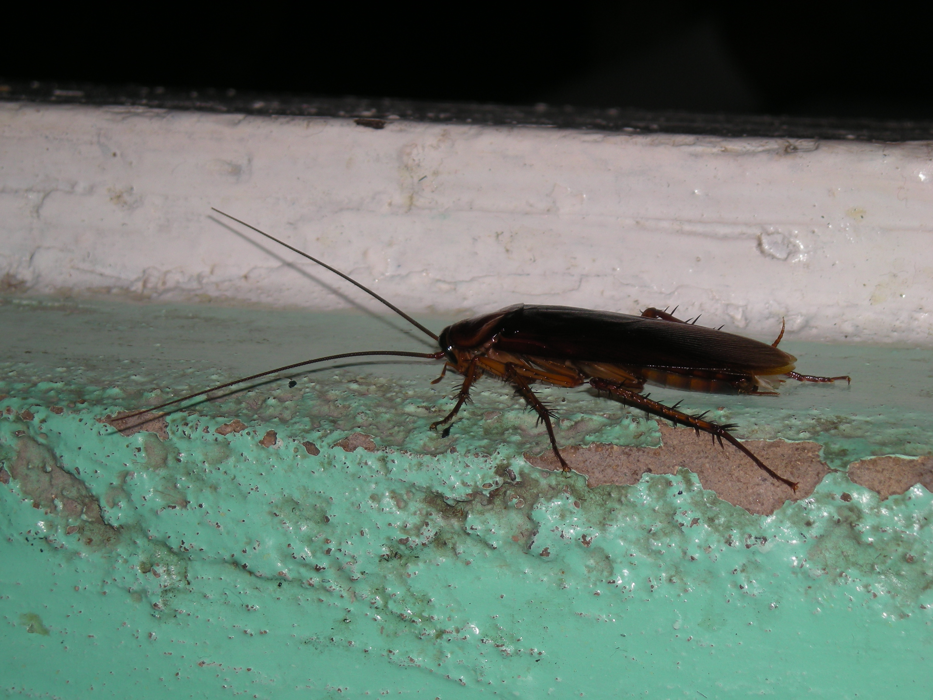 An male American cockroach (Periplaneta americana)